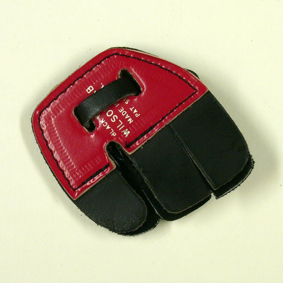 Finger tab, used in archery to protect the fingers holding the arrow and pulling the chord